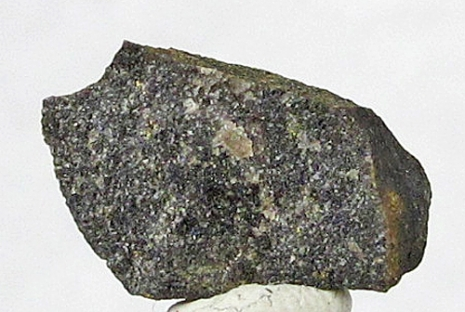 Arsenohauchecornite Locality: Vermilion Mine, Denison Township, Sudbury District, Ontario, Canada Dimensions: 1.7cm x 1.0cm x 0.7cm Desciption: Arsenohauchecornite is a very rare Ni-Bi-As sulfosalt (3 localities worldwide - MINDAT) and this famous Canadian mine is the Type Locality. Irregular masses and microcrystals of bronze-metallic arsenohauchecornite are noted on three sides of the thumbnail matrix. A couple of chalcopyrites are also noted. This is a rich example of this rarity.